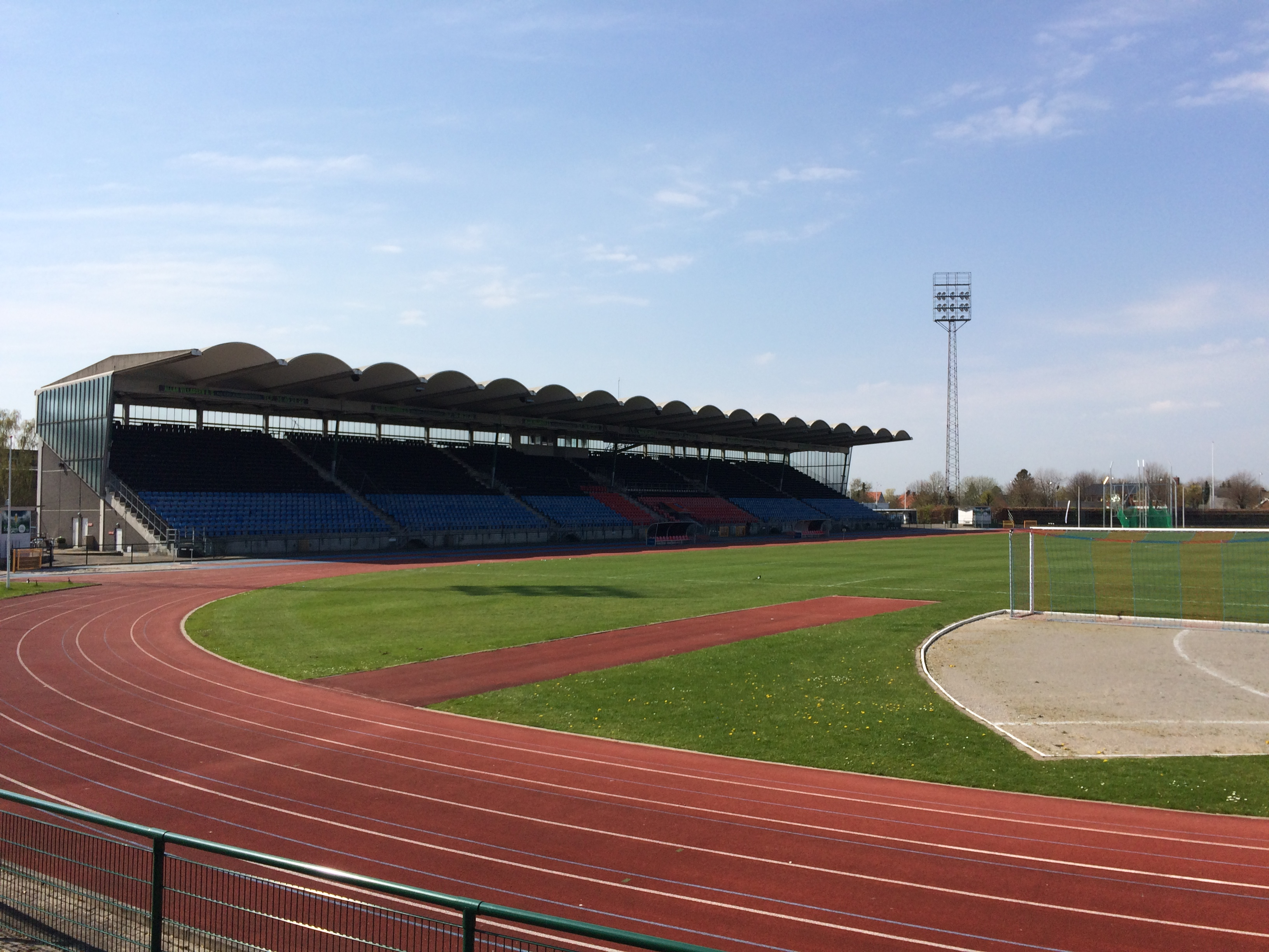 Hvidovre Stadion (Stadium), overlooking the pitch with the main grandstand in the background